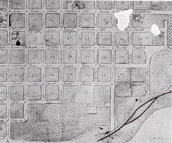 Map of Oaxaca de Juarez Oaxaca, 1877.